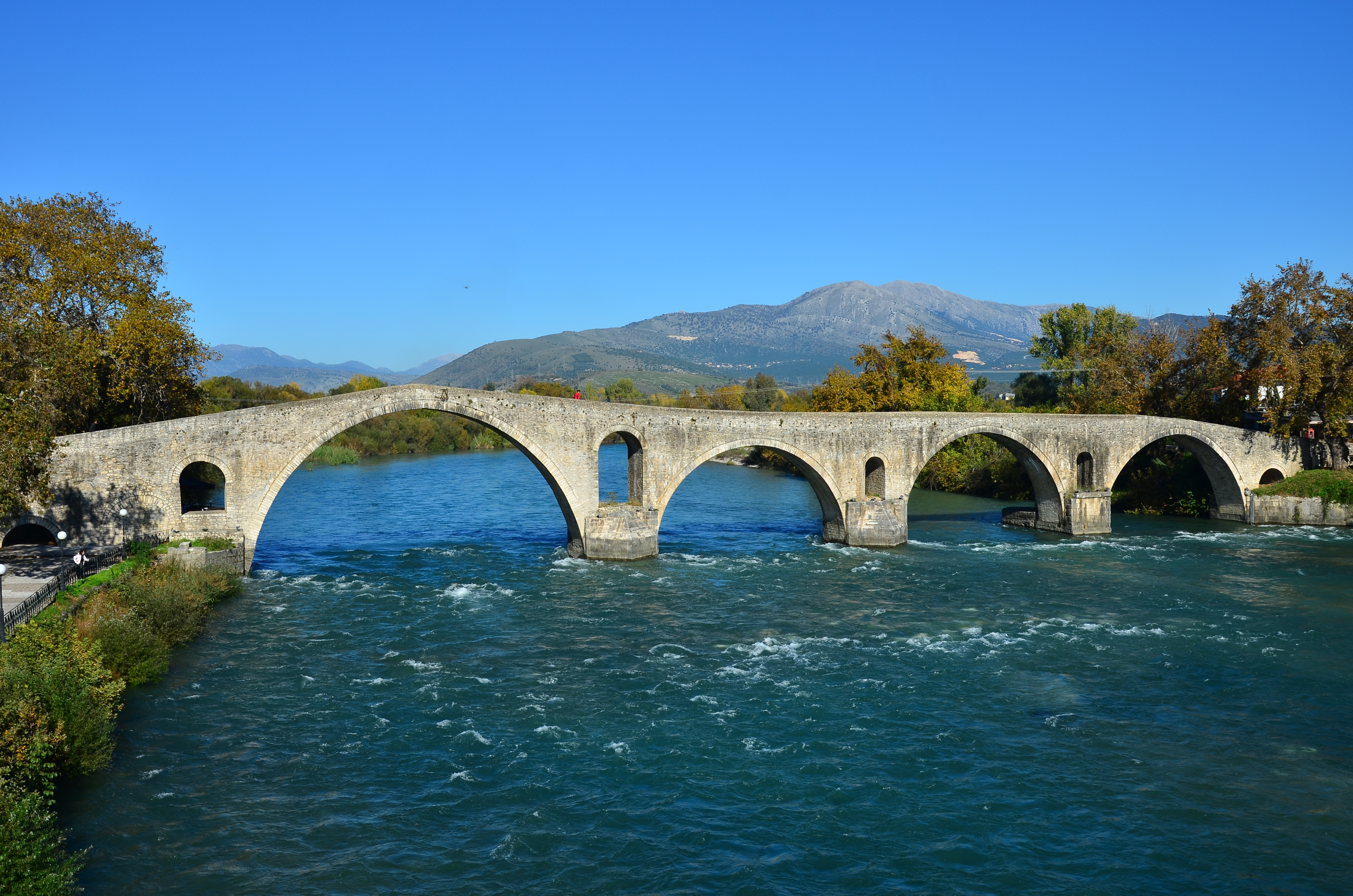 The Bridge of Arta, over Arachthos river